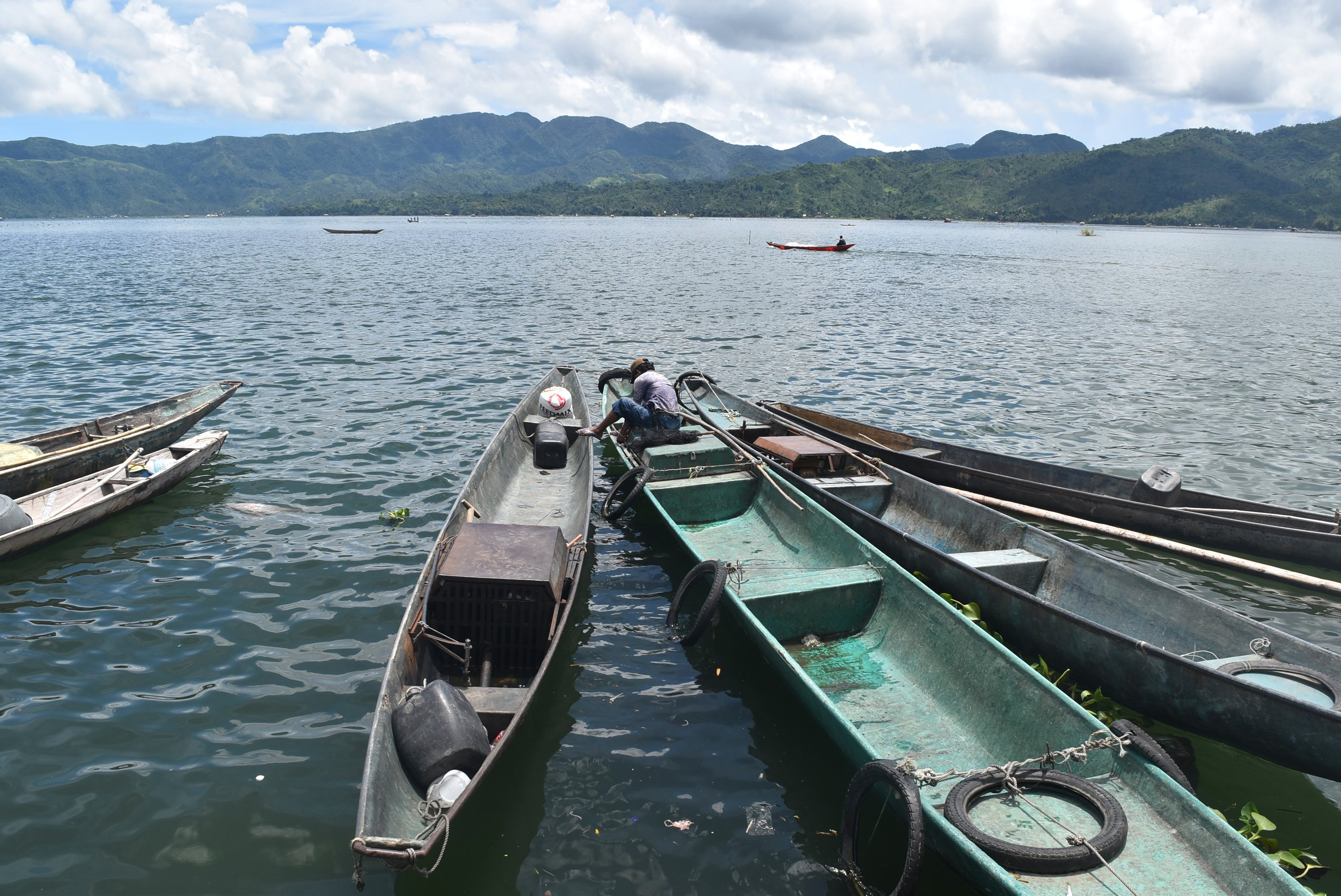 Lake Buhi is known for its bountiful resources wherein fresh tilapia and sinarapan (the smallest fish in the world) can be seen.